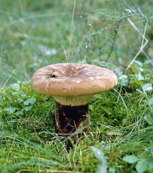 Tapinella atrotomentosa may be poisonous; do not experiment. Location: Franconia